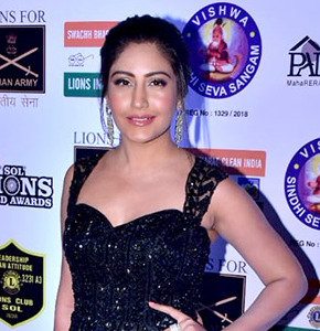 Surbhi Chandna at the 25th SOL Lions Gold Awards 2018